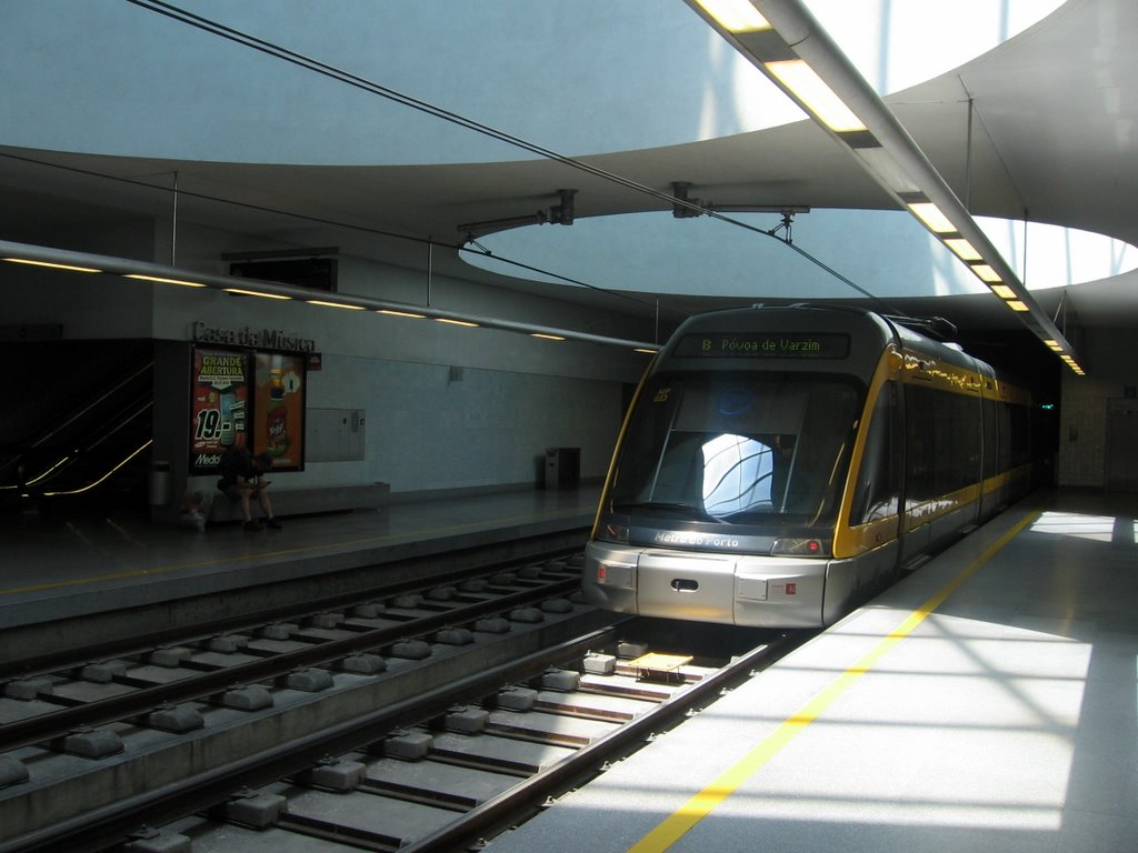 This is the station next to the famous Koolhaas building Casa da Música.